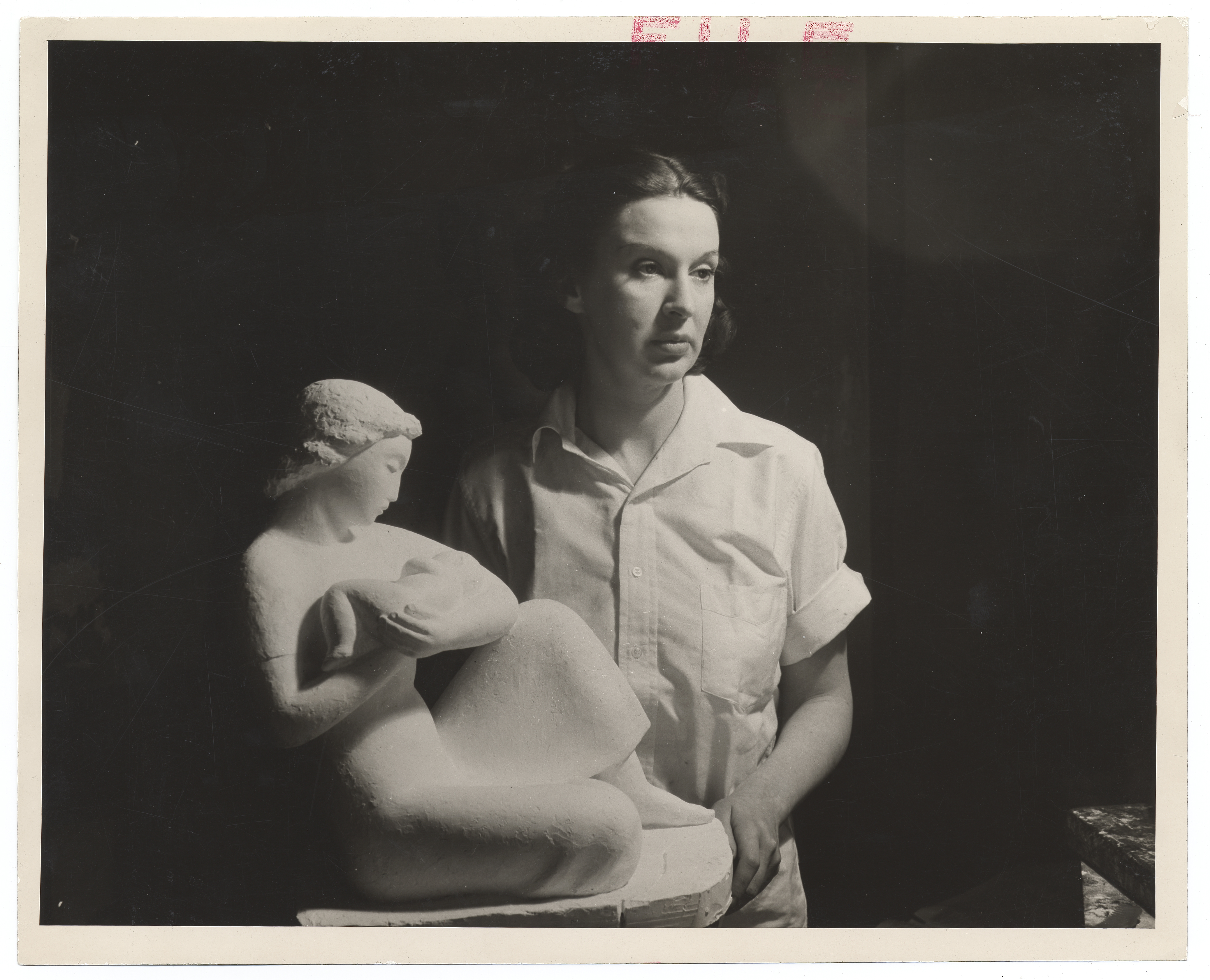 Shows Gaulois in her studio with her sculpture. Identification on verso, right (handwritten and stamped): Federal Art Project W.P.A.; Photographic Division; 215 East 42nd Street; New York City Location: 136 E. 57 St., N.Y. City; Date: 1/27/38; Negative No: 2739-1; Photographer: Eagle Identification on verso, left (handwritten and stamped): Artist: Helen Gaulois.